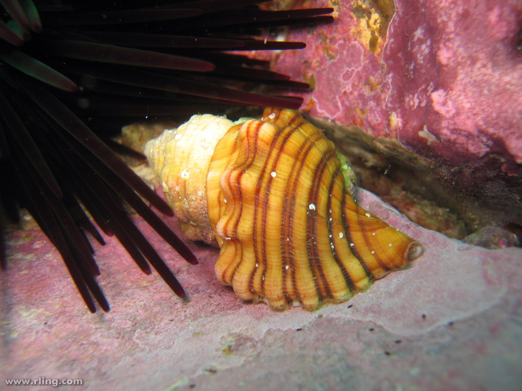 Spengler's Triton (Cabestana spengleri) shelters under a sea urchin. Looking Glass, Port Stephens, NSW